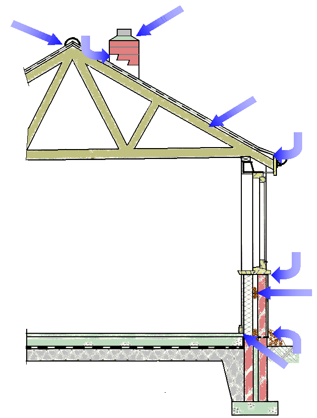 Detail of construction faults and defects for use in damp (structural)